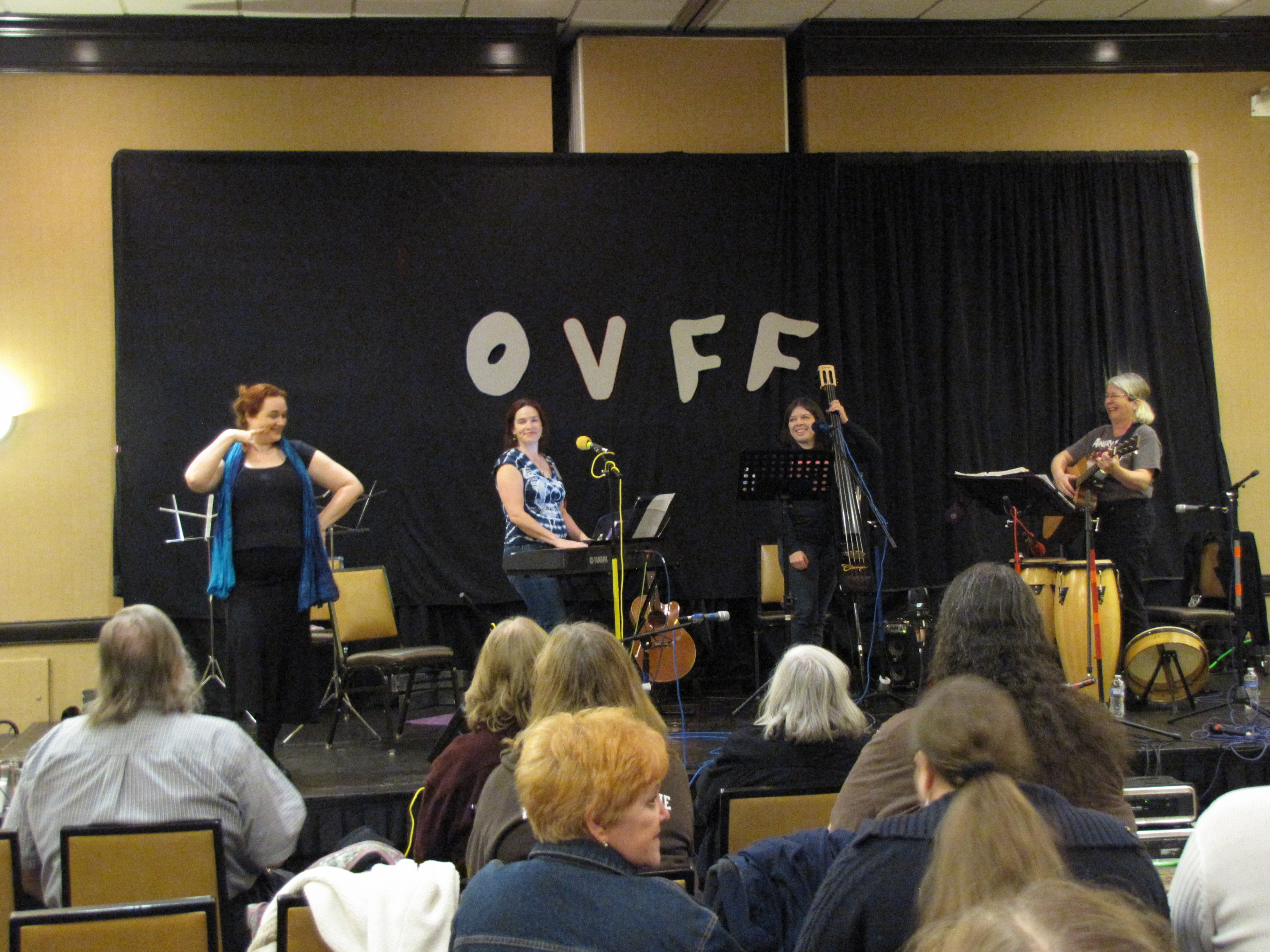 Three Weird Sisters & Judy on stage at Ohio Valley Filk Fest 2012